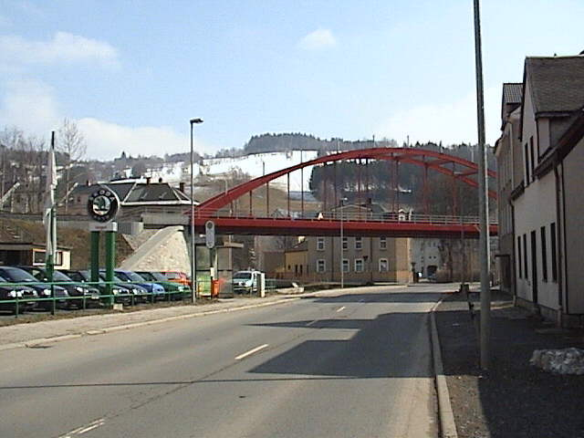 Railway bridge of the Vogtlandbahn in Klingenthal, Germany